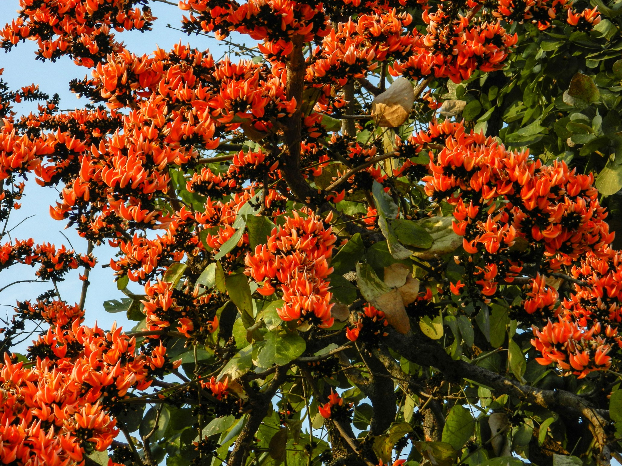 Palash blooms in early February at Ranchi, Jharkhand, India